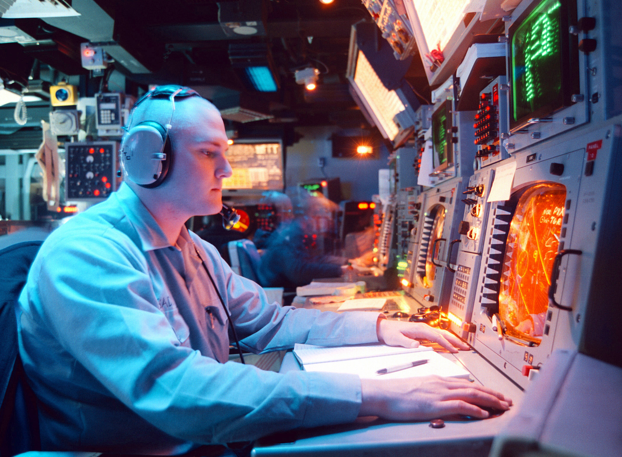 On board the guided missile cruiser (AEGIS) USS NORMANDY (CG 60). Operations Specialist Seaman (OSSN) Gary Sadler monitors the movement of ships in the Persian Gulf from the Combat Information Center (CIC). The NORMANDY is currently conducting operations in the Persian Gulf with the nuclear powered aircraft carrier USS GEORGE WASHINGTON (CVN 73) battle group. Operation SOUTHERN WATCH, 5 December 1997.U.S. Navy photo by Photographers Mate Airman Joseph Strevel (Released)